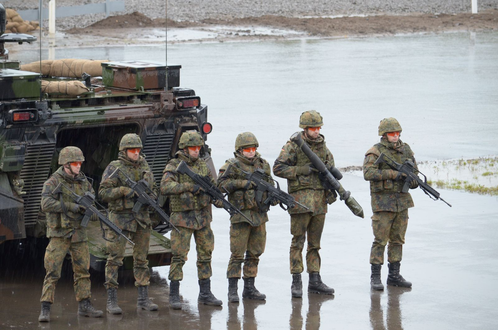 Impressions of the Information and demonstration´s exercise of the Bundeswehr on September 24, 2012 in Bergen-Hohne (IDE Bw 2012), here a group of Armour grenadiers.